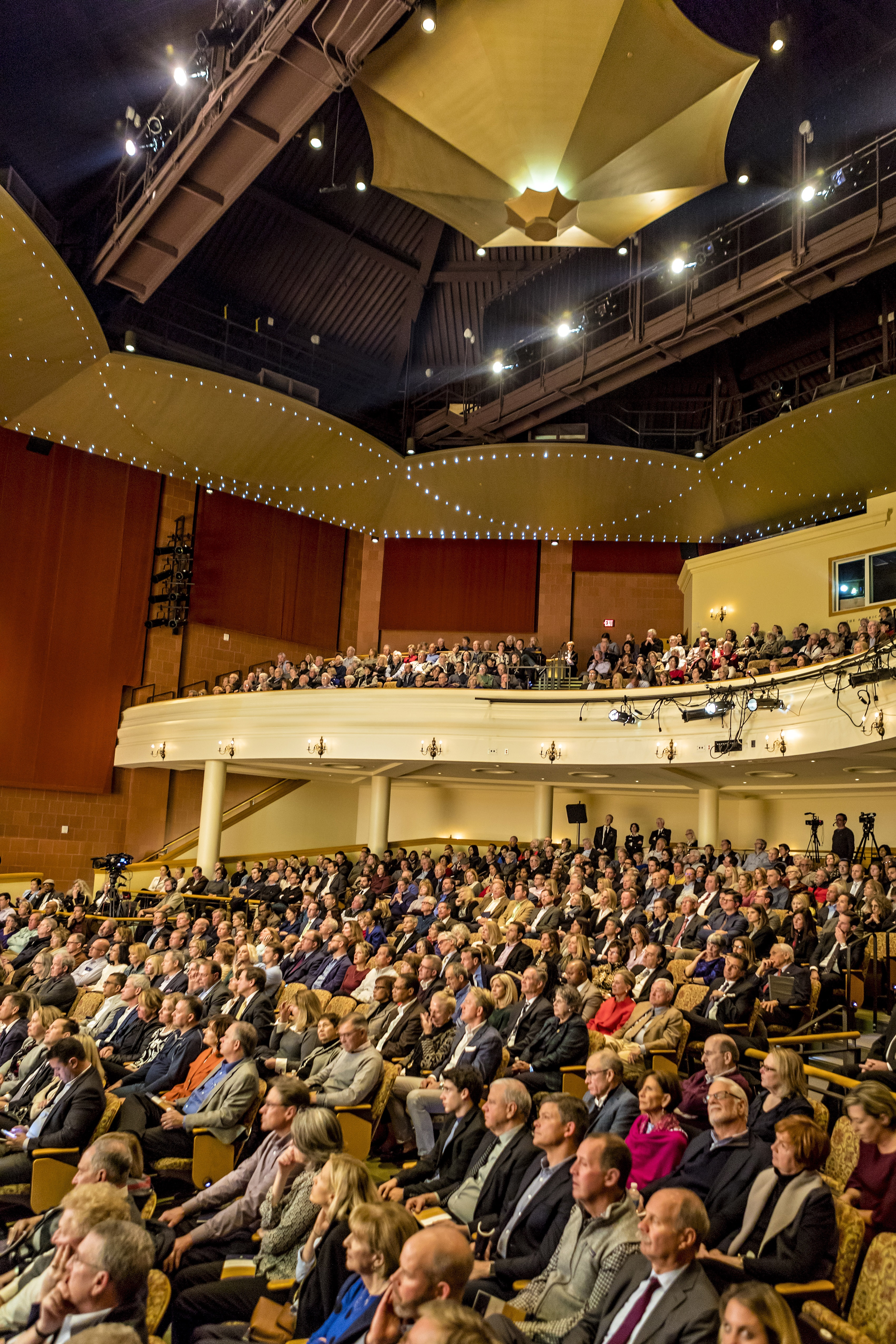 Audience at a National Security Town Hall presented by the New Albany Community Foundation on Thursday evening October 25, 2018, as part of The Jefferson Series. The Foundation welcomed Stephen Hadley, General Michael Hayden, and Samantha Power to the town hall event, moderated by CNN's Fareed Zakaria. Schottenstein Auditorium, Jeanne B. McCoy Community Center for the Arts, New Albany, Ohio.